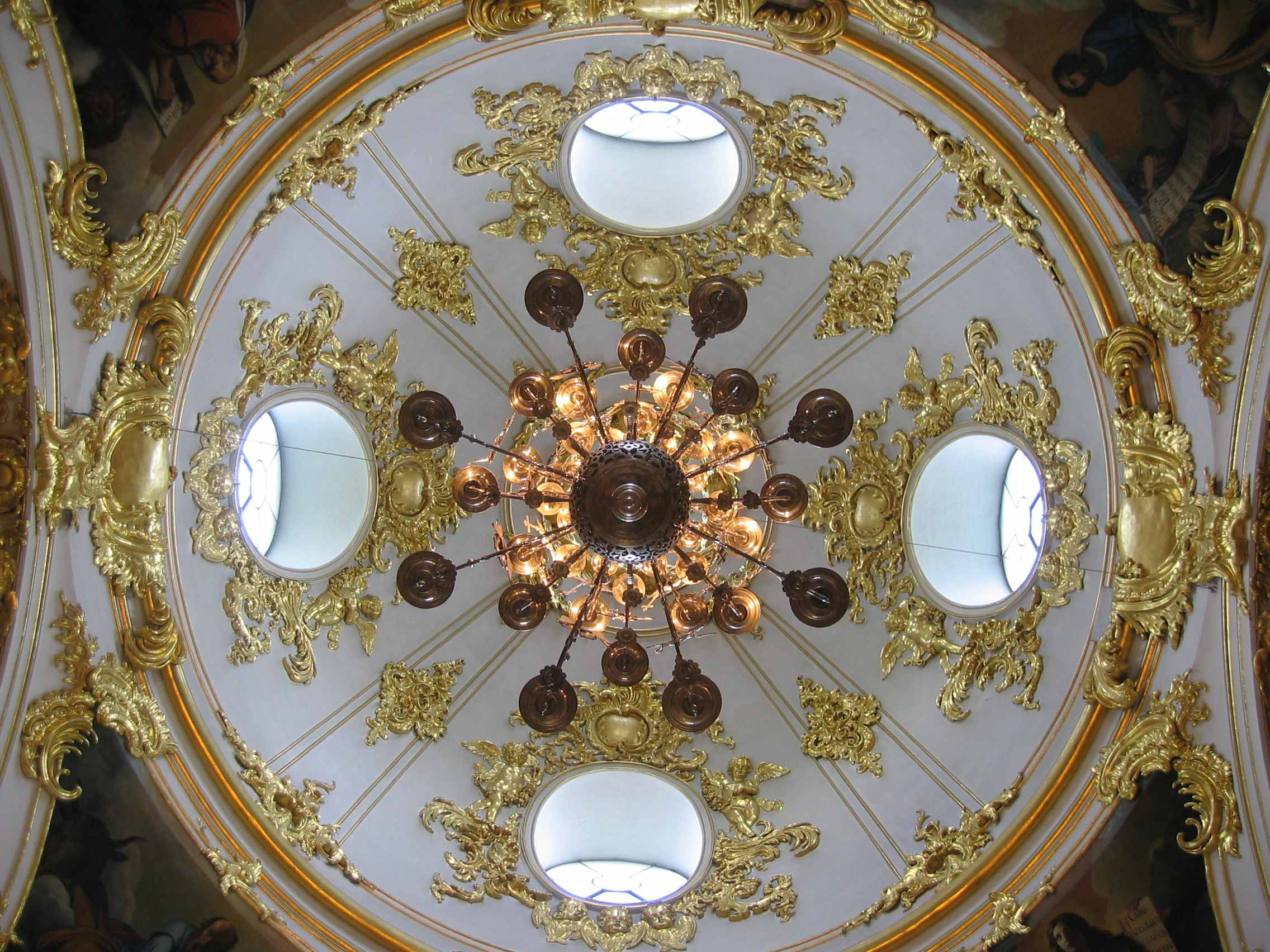 Dome interior and chandelier of the Hermitage.